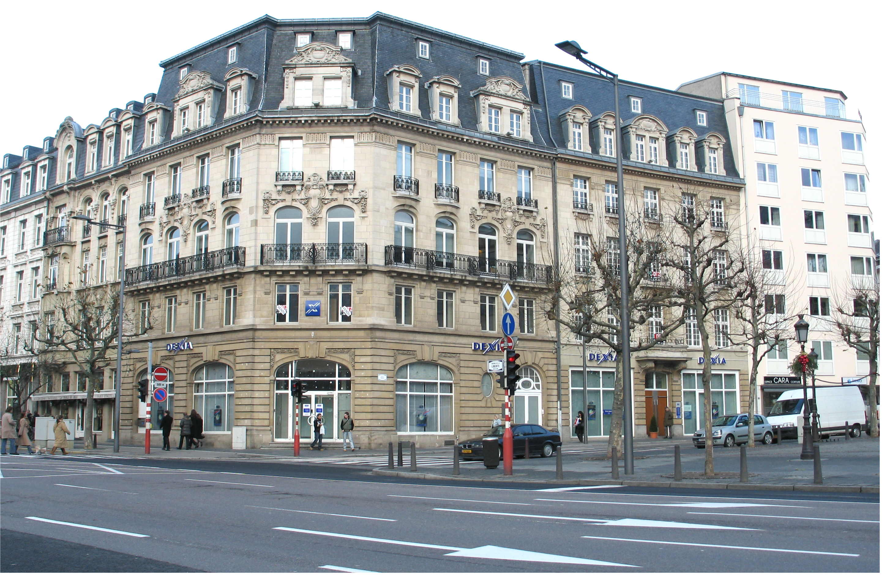 Luxembourg City: place de Paris.